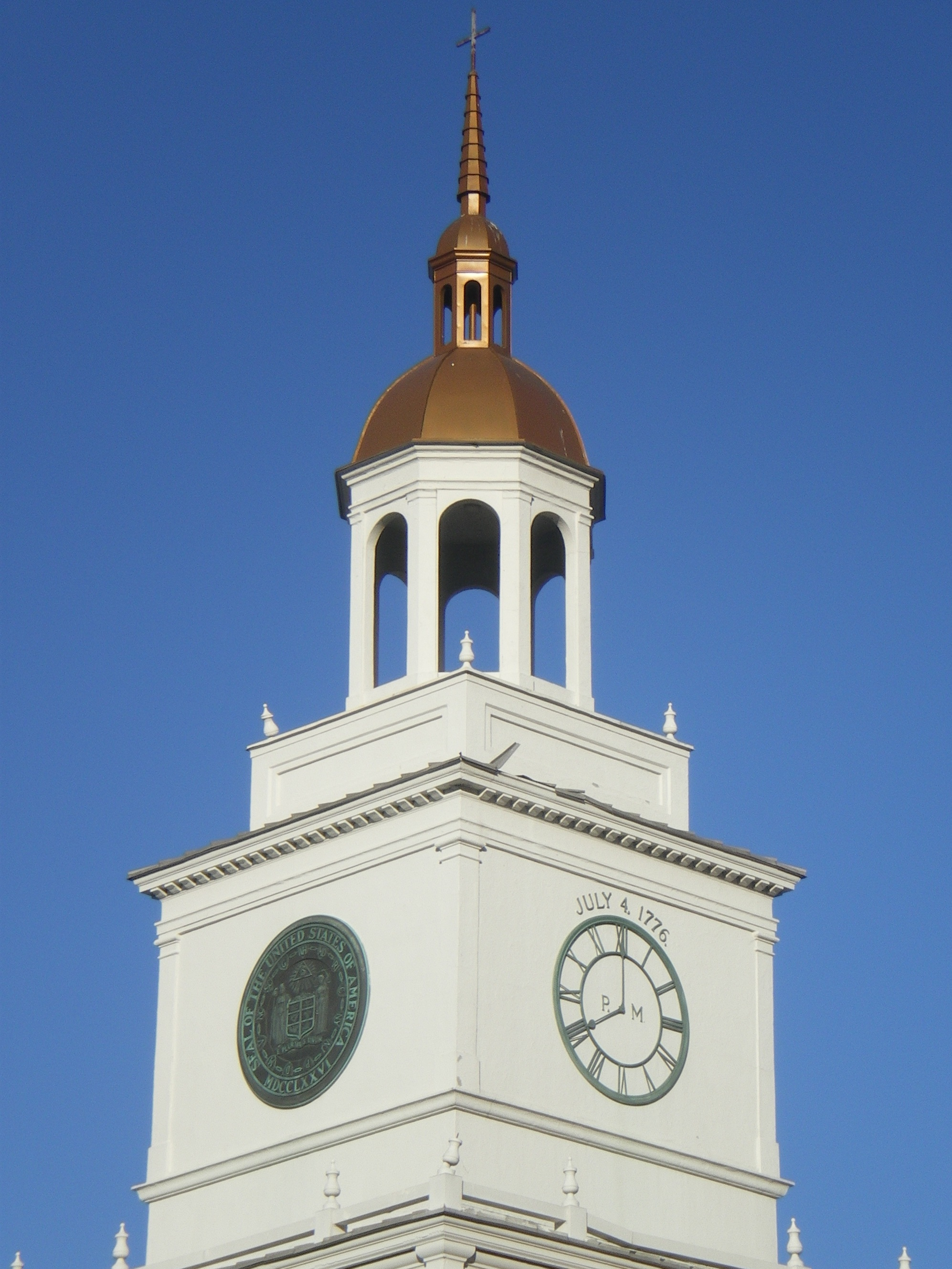 Bell Tower at Bellarmine-Jefferson High School (Burbank, Calif). Bellarmine-Jefferson High School (Burbank, Calif).